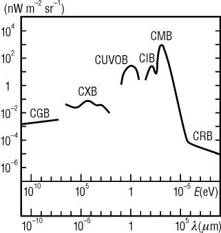 Radiance spectrum λLeλ of the extragalactic background